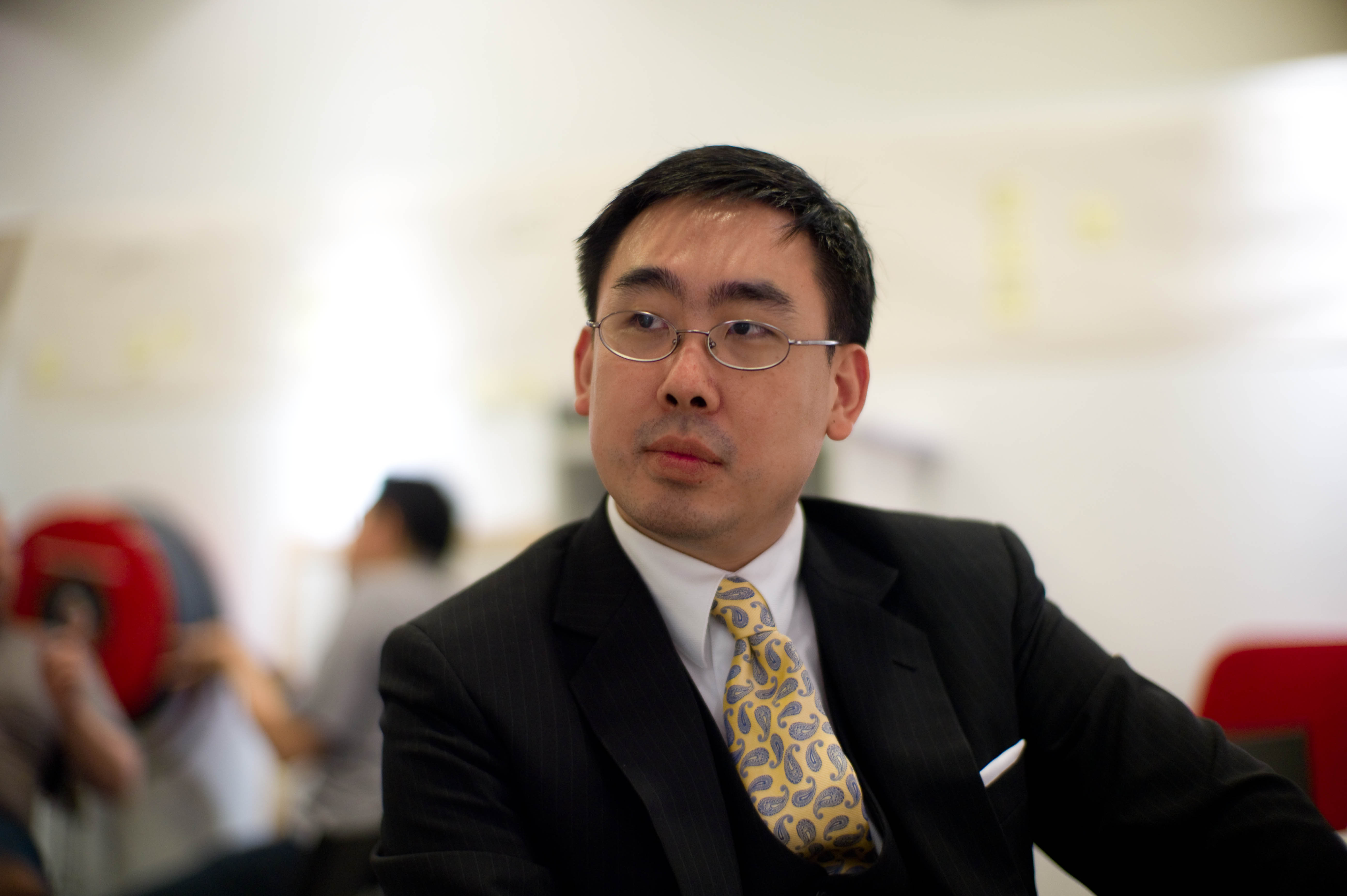 Meng Weng Wong